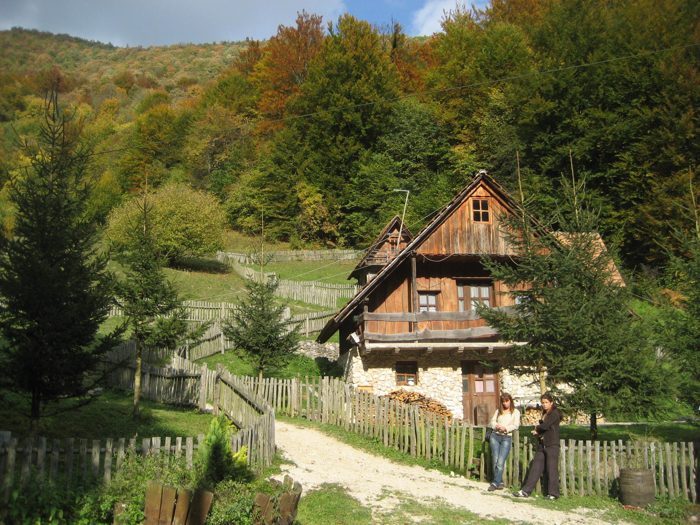 ekoselo zumberak